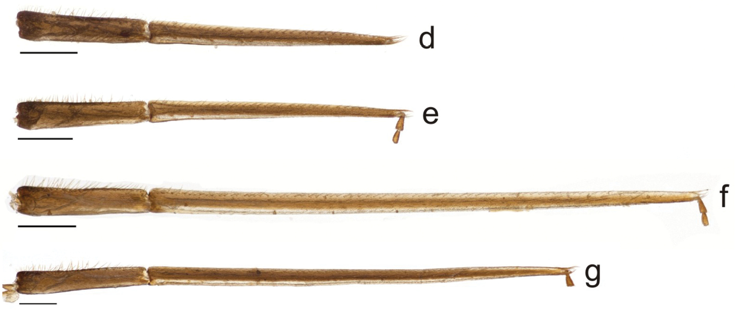 "Labial palpi of Megachile subgenera Megachile (a) and Megachiloides s. l. (b–g), size of images adjusted to have basal palpomere of standardized length; a Megachile centuncularis (Linnaeus) (type species of Megachile Latreille) b Megachile pascoensis Mitchell (type species of Derotropis Mitchell c Megachile integra Mitchell, type species of the Xeromegachile Mitchell d Megachile amica Cresson e Megachile chomskyi, new species f Megachile oenotherae (Mitchell), type species of Megachiloides Mitchell g Megachile umatillensis (Mitchell). Scale bar = 0.5 mm."